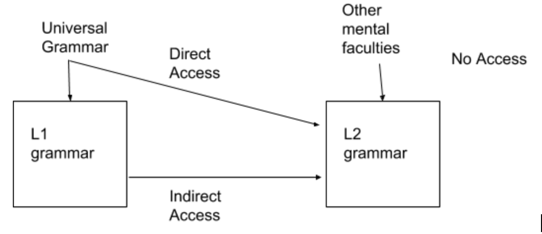 Chart showing access theories of generative SLA